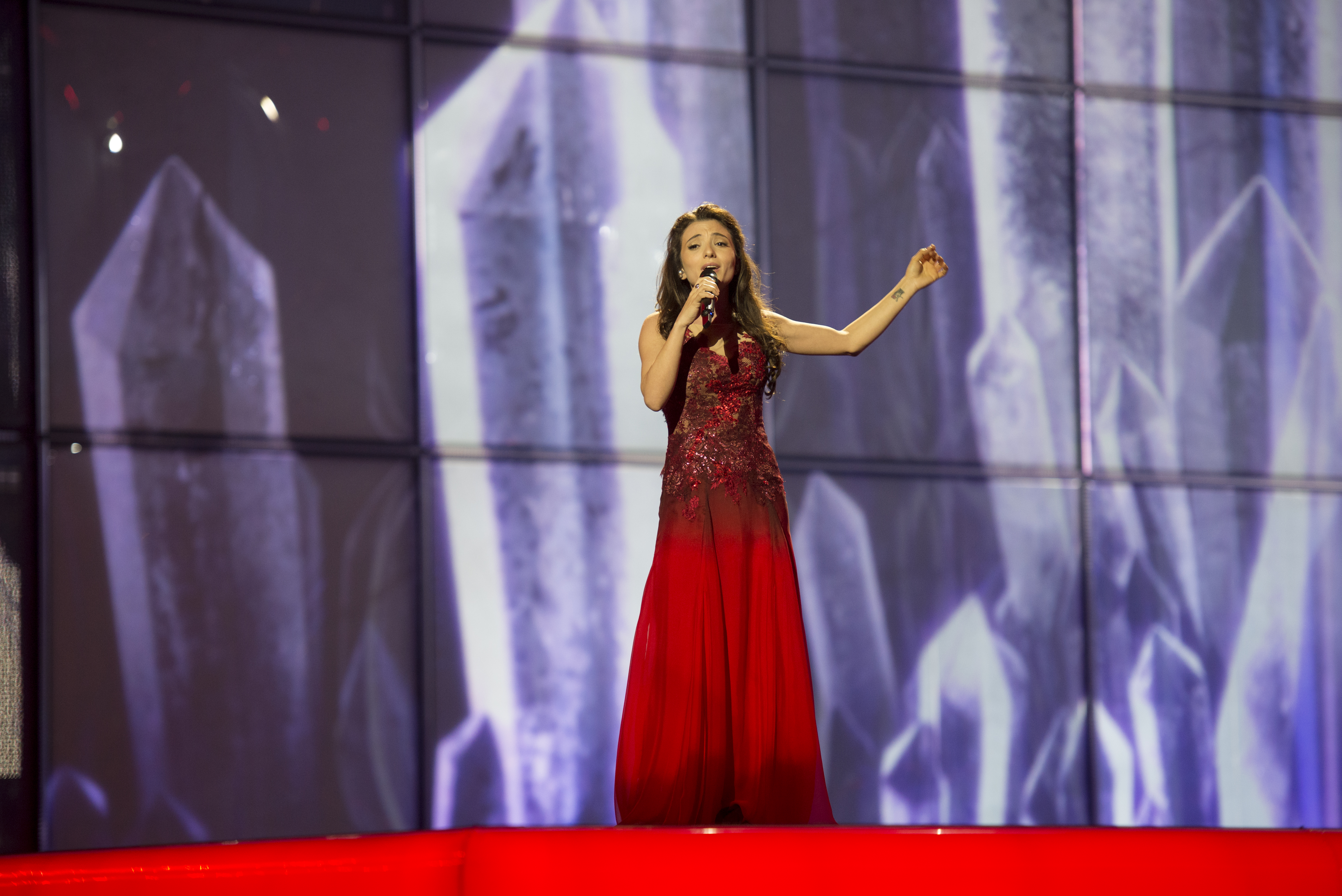 Dilara Kazimova representing Azerbaijan with the song "Start a Fire" during the first dress rehearsal of the first semi final of the Eurovision Song Contest 2014 Copenhagen. (Help translate this text)